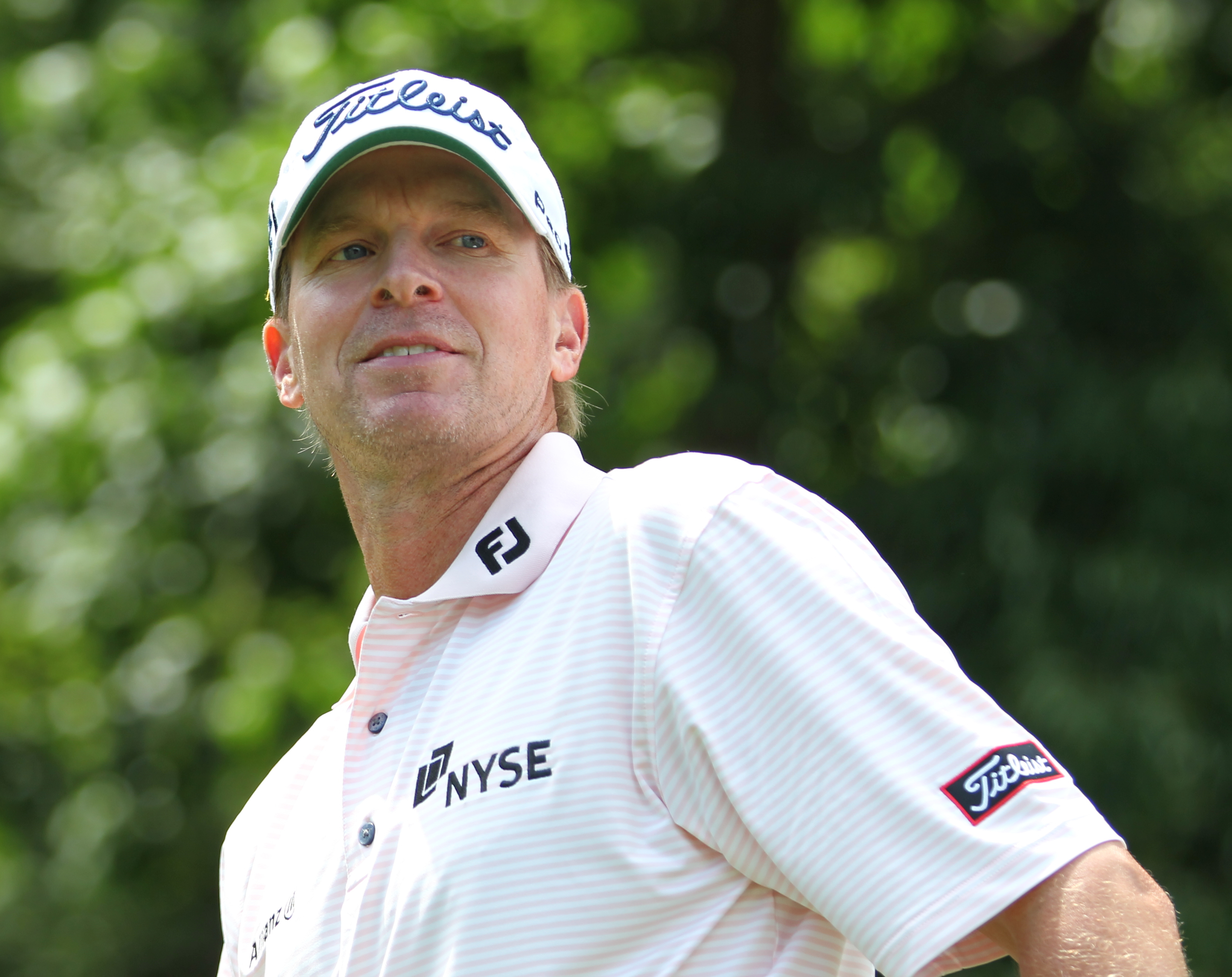 Steve Stricker at the 2011 U.S. Open Golf Practice Round